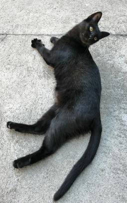 Domestic black cat